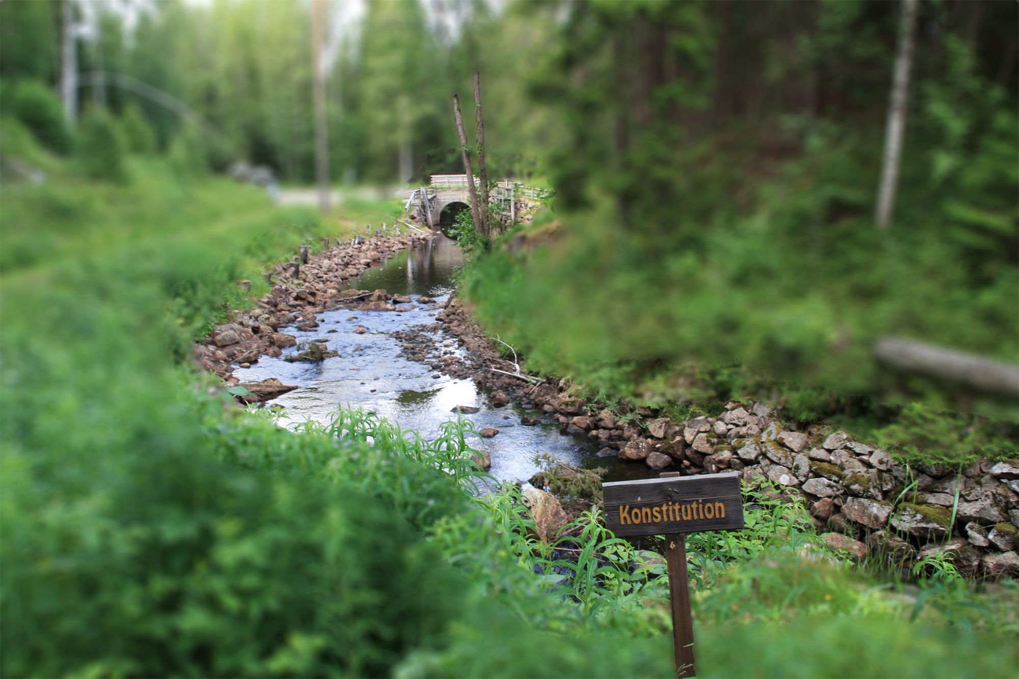 The Soot Canal - picture of old Lock (water transport)